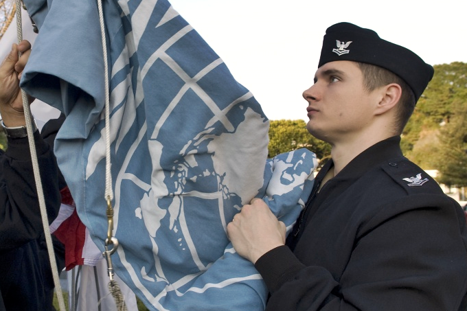 Seaman Adam Dickey, personnel specialist, from Sacramento, Calif., and Petty Officer 2nd Class Jonathan Kress, machinist's mate, from Loudon, Tenn., raise the United Nations flag during morning colors at Fleet Activities Yokosuka.